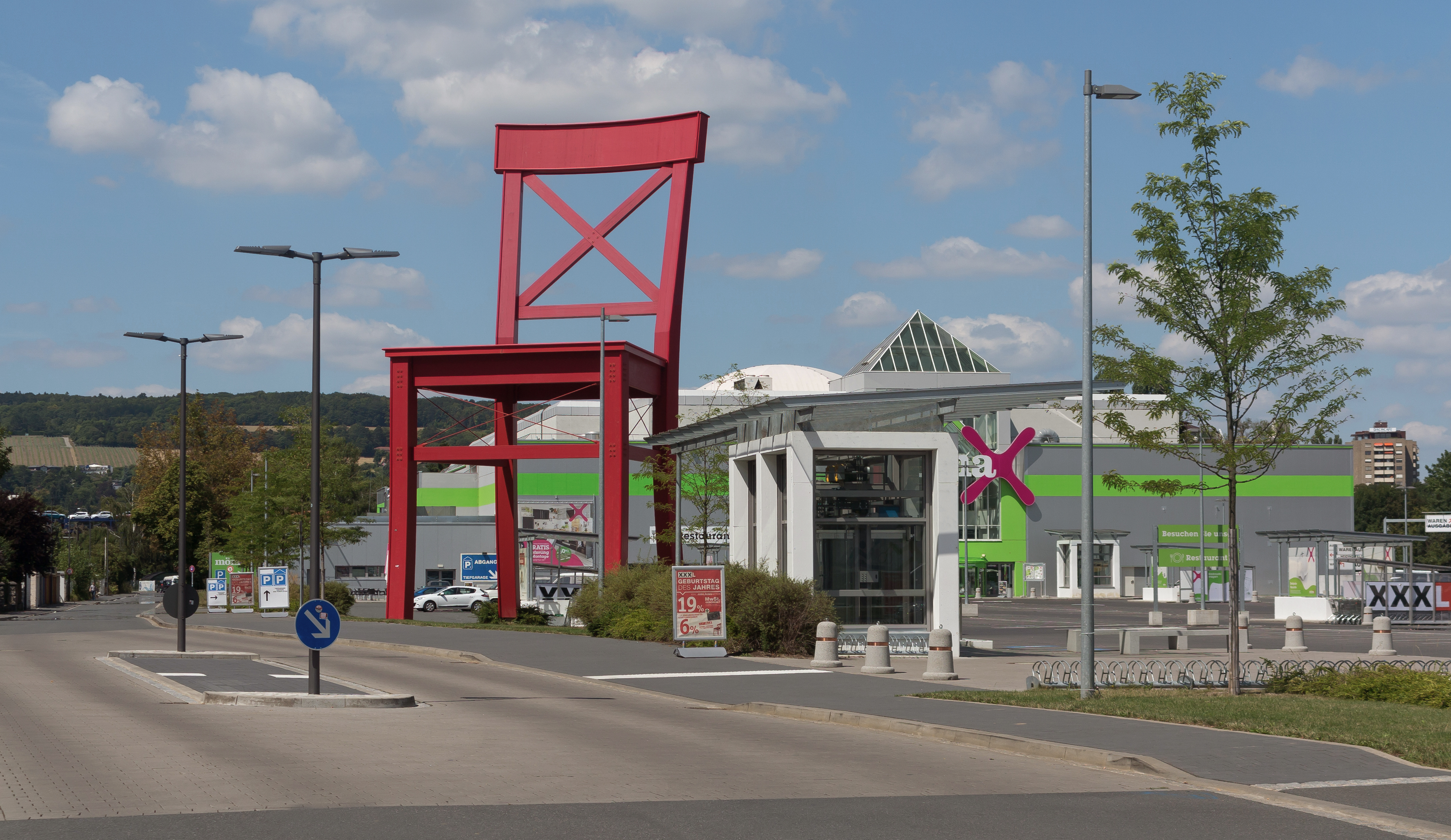 Würzburg, sculpture in Mergentheimer Strasse